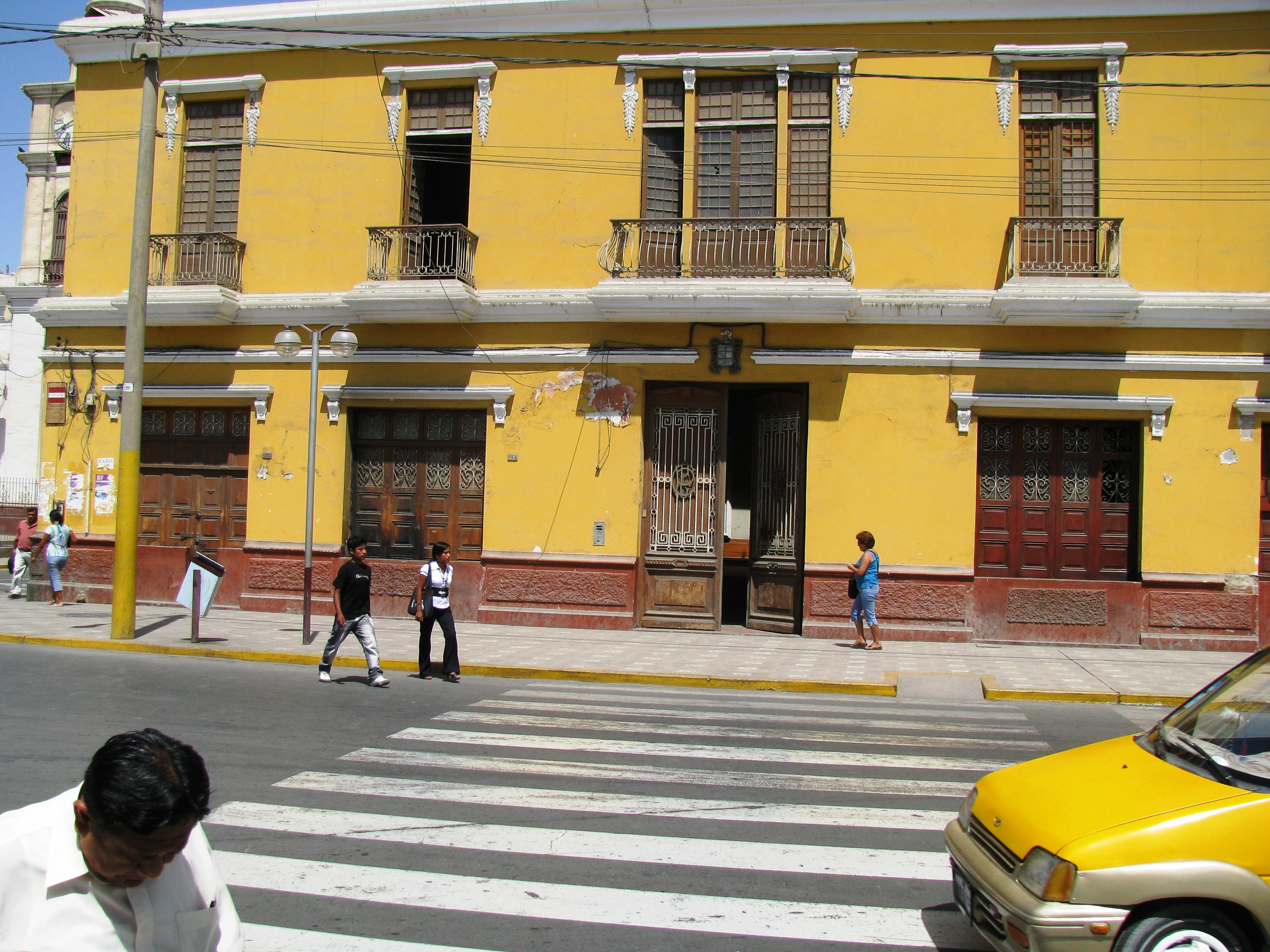 Ica stones the Museo de Piedras Grabadas (Engraved Stones Museum) in Ica, Peru